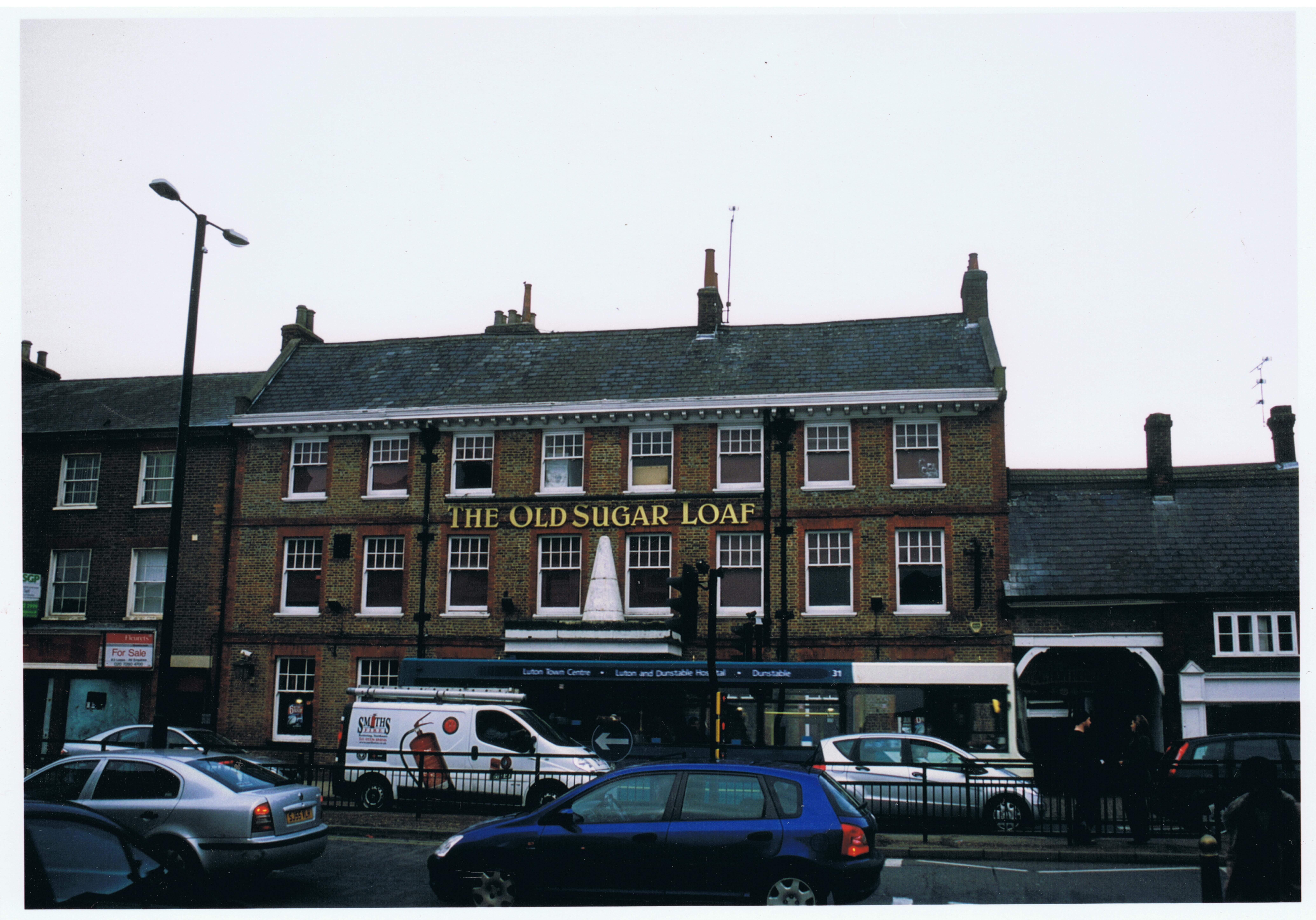 Photo (by me, R. de Salis, Rodolph (talk)) of The Sugar Loaf coaching inn or public house, Dunstable, 2011.